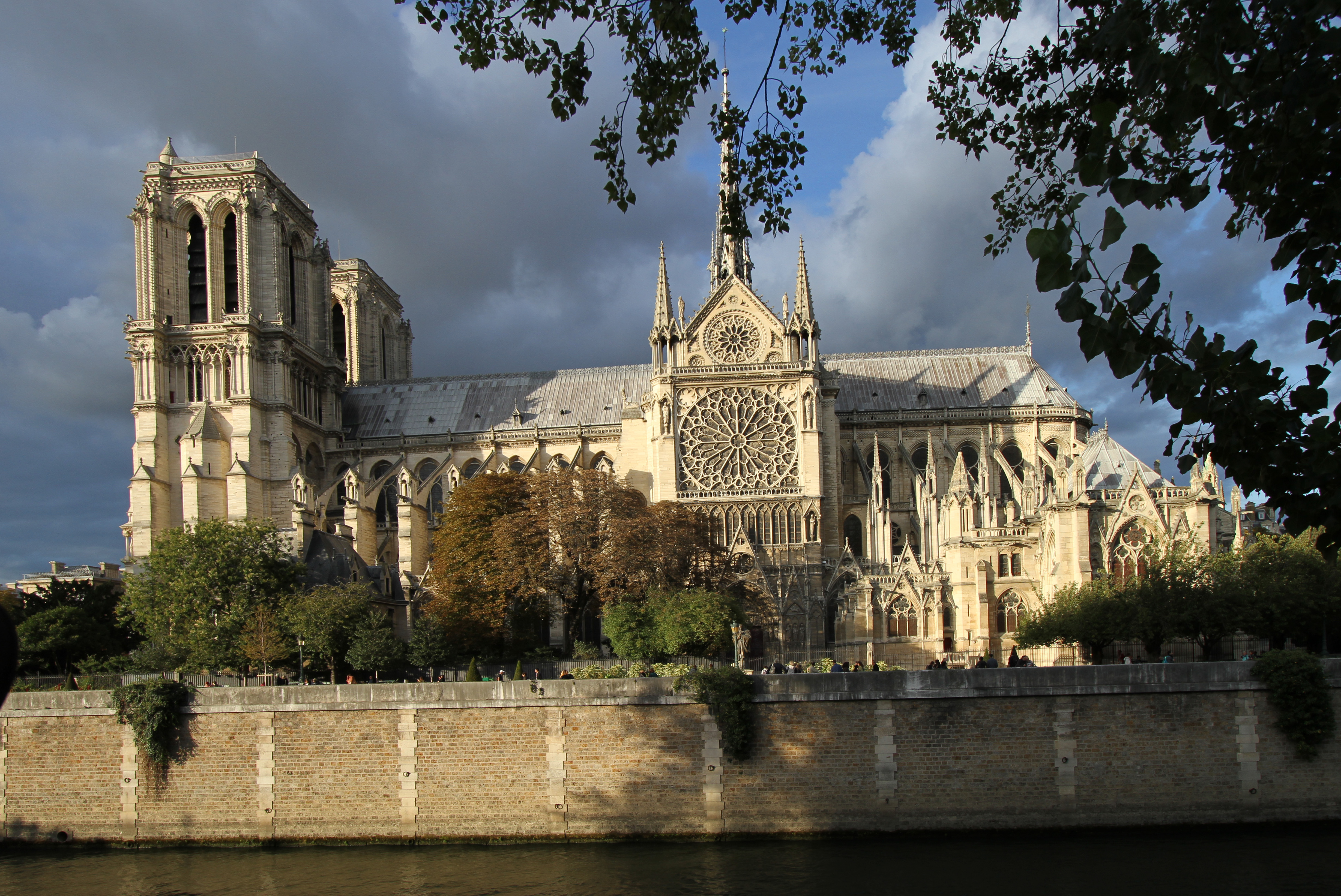 Cathedral of Notre-Dame in Paris